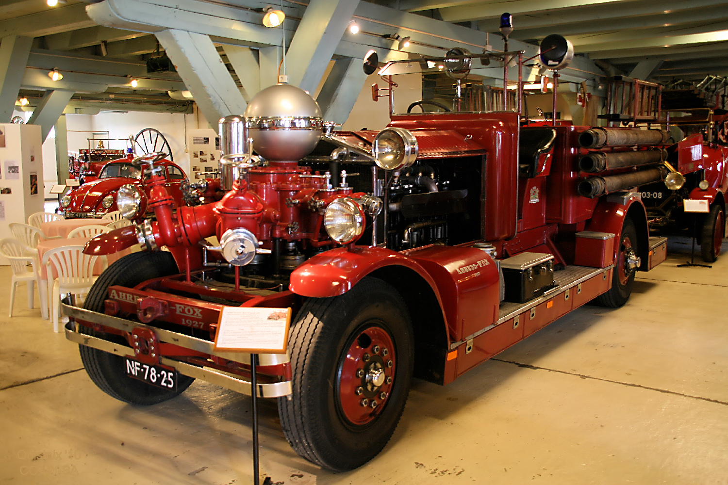 1927 Ahrens-Fox fire engine in the Nationaal Brandweermuseum in Hellevoetsluis, the Netherlands